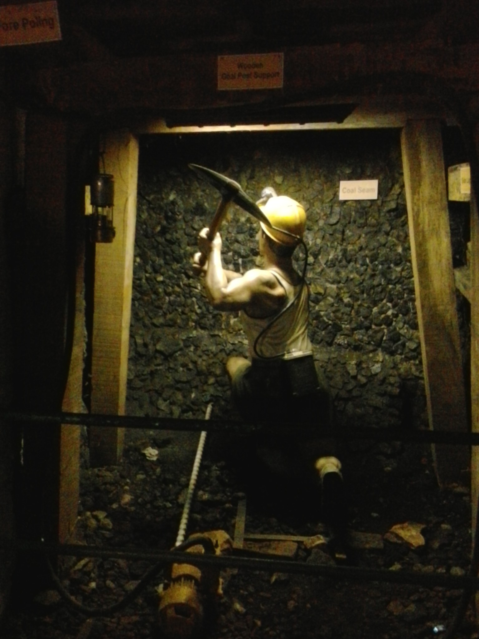 This is a model kept in Coal Heritage Museum situated in Margherita, India, depicting a worker busy in mining coal in an underground coal mine